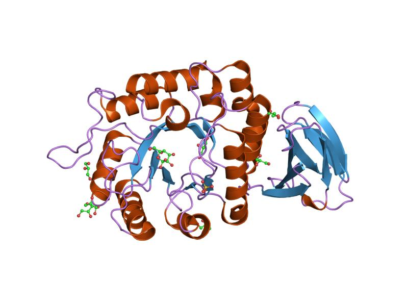 Cartoon representation of the molecular structure of protein registered with 1uas code.